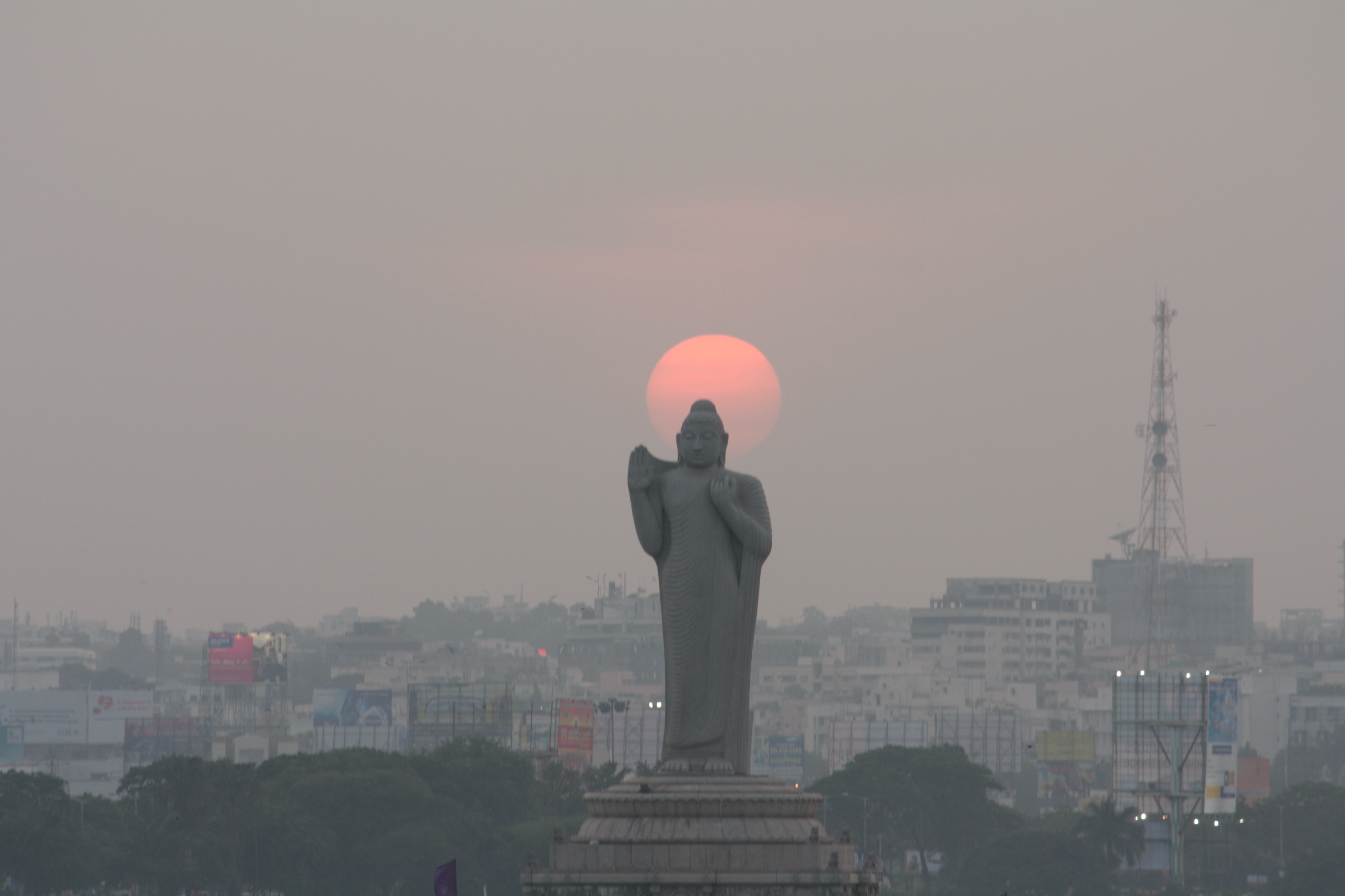 Buddha statue at the Hussain Sagar lake, Hyderabad